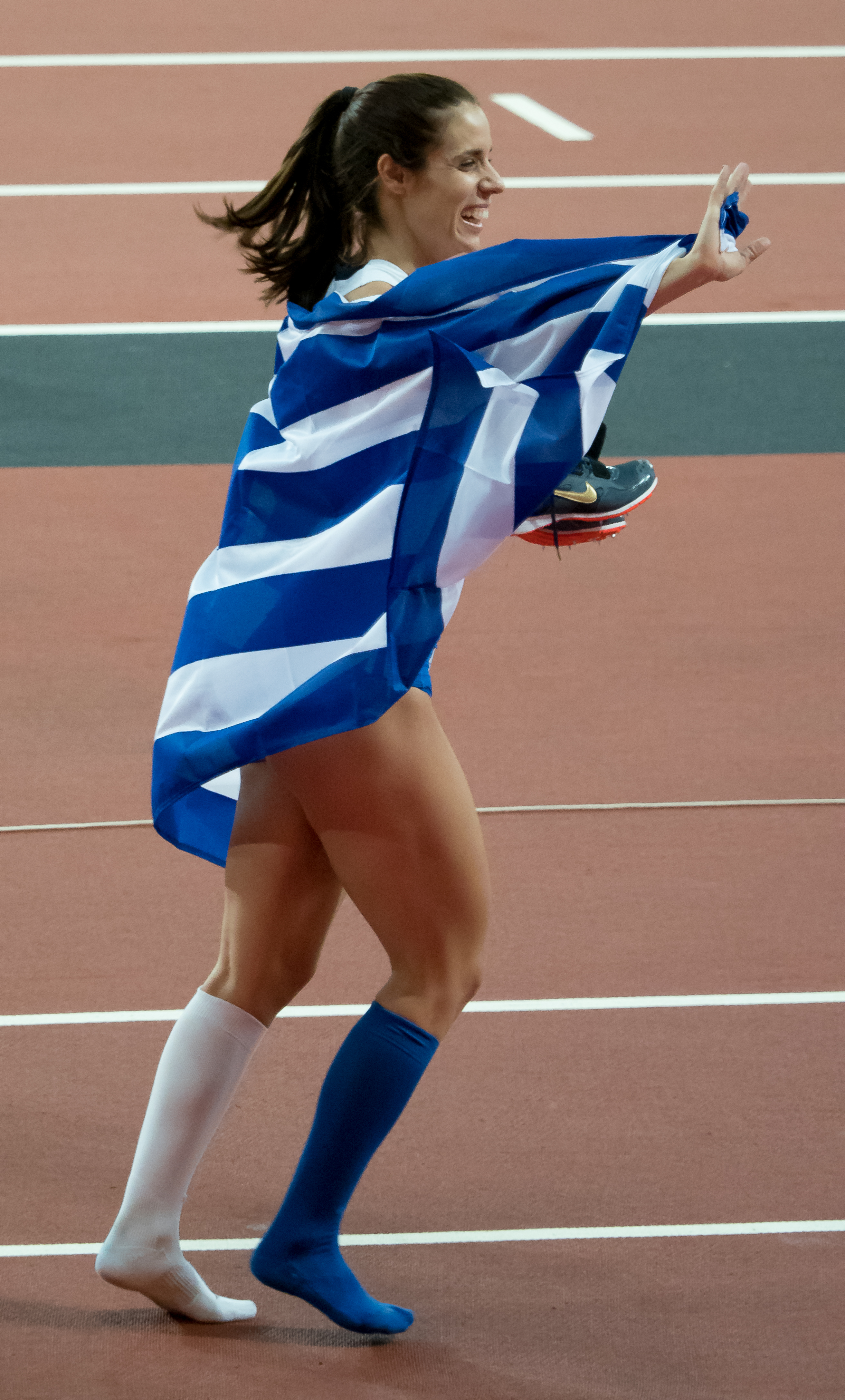 Victory lap at the 2017 Athletics World Championships at the Queen Elizabeth Olympic Park in Stratford PERMISSION TO USE: Please check the licence for this photo on Flickr. If the photo is marked with the Creative Commons licence, you are welcome to use this photo free of charge for any purpose including commercial. I am not concerned with how attribution is provided - a link to my flickr page or my name is fine. If used in a context where attribution is impractical, that's fine too. I enjoy seeing where my photos have been used so please send me links, screenshots or photos where possible. If the photo is not marked with the Creative Commons licence, only my friends and family are permitted to use it.